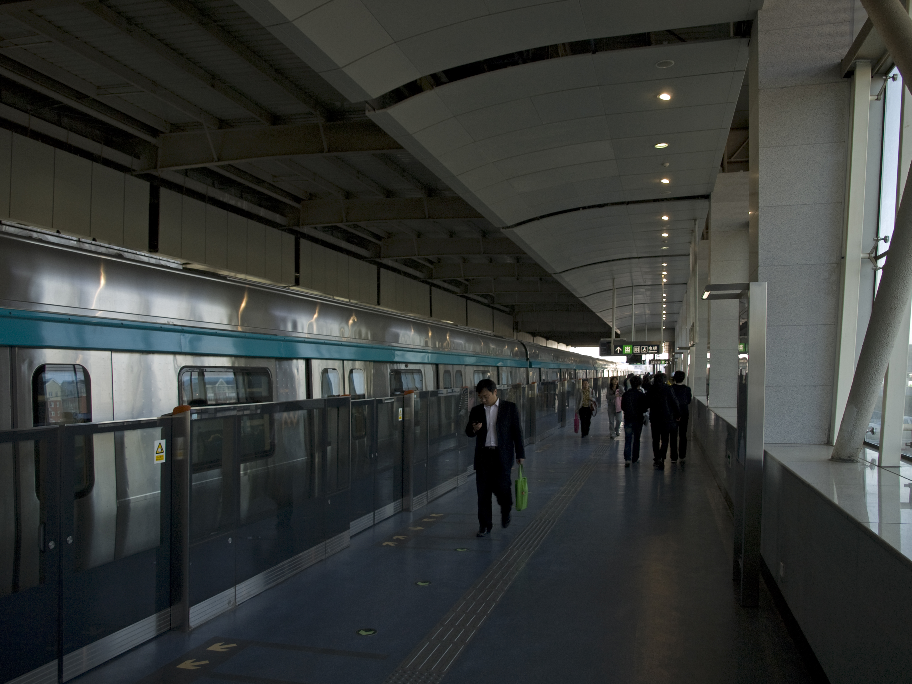 Anheqiao North station, Beijing subway, the arrival platform